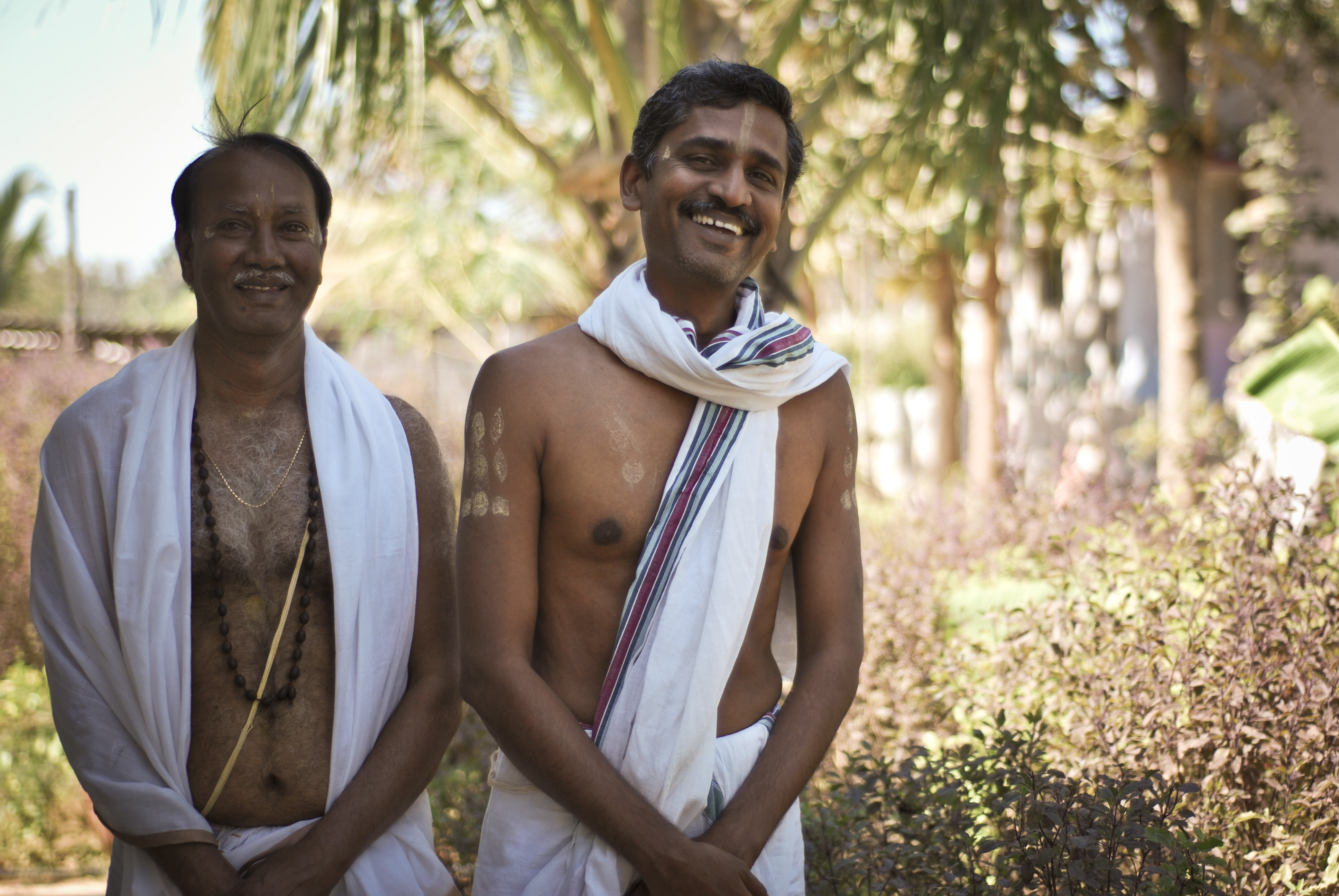 Culture, dress of Brahmins Karnataka India